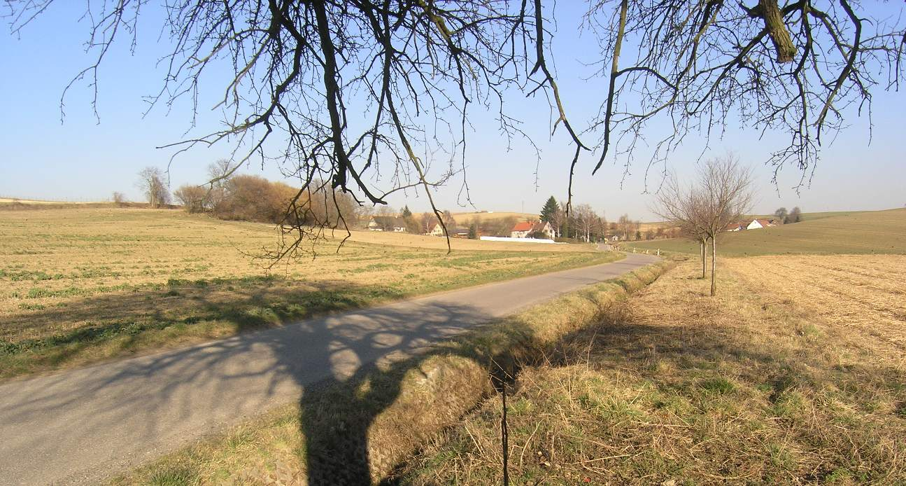 Sallenbusch,artificial village founded 1951